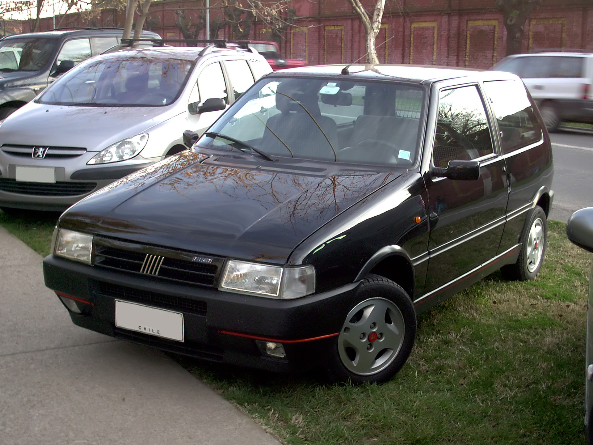 Fiat Uno 1.3 Turbo 1991